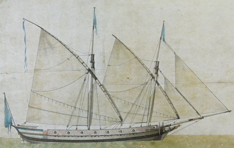 Contemporary painting of a pojama with lateen rigging. 18th century.